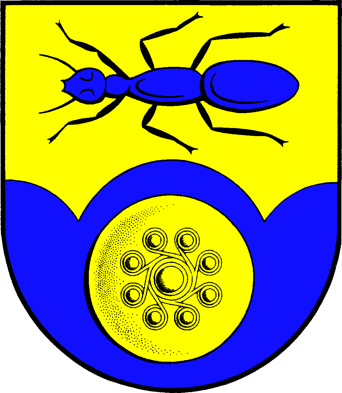 Coat of arms of the municipality Brekendorf in Schleswig-Holstein, Germany.